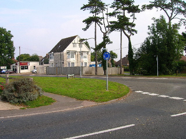 Leap Cross, Hailsham. The point where London Road meets Hawks Road (formerly Union Road due to the siting of Hailsham Workhouse) and Hempstead Lane. The picture looks north up London Road from Hempstead Lane.